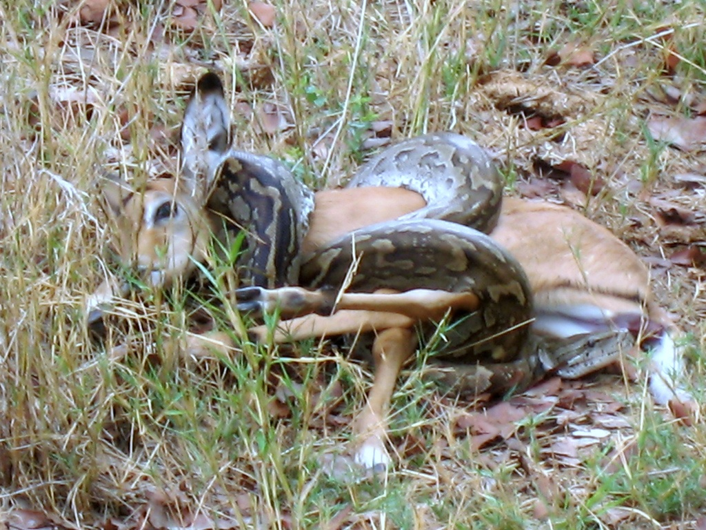 Probably (!!!!) a Southern African Rock Python (Python natalensis) constricting a small impala. The location were this picture originates from is unknown. The autor doesn't answer this open question till date. So it is impossible to assign this python to Python natalensis or Python sebae